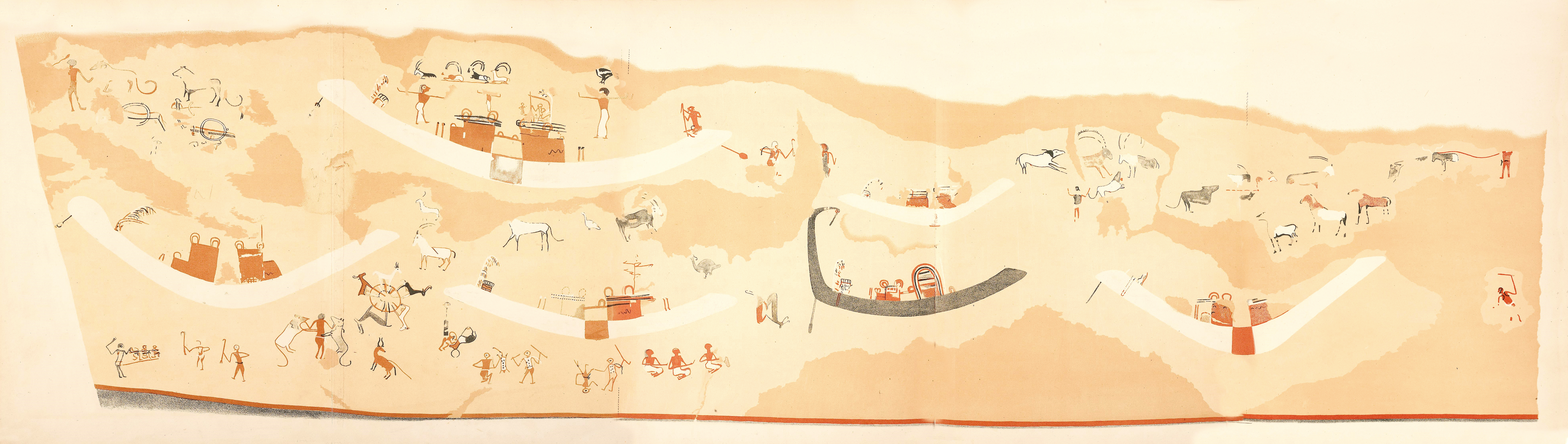 Tomb 100 Hierakompolis, Naqada II culture (c. 3500-3200 BCE)